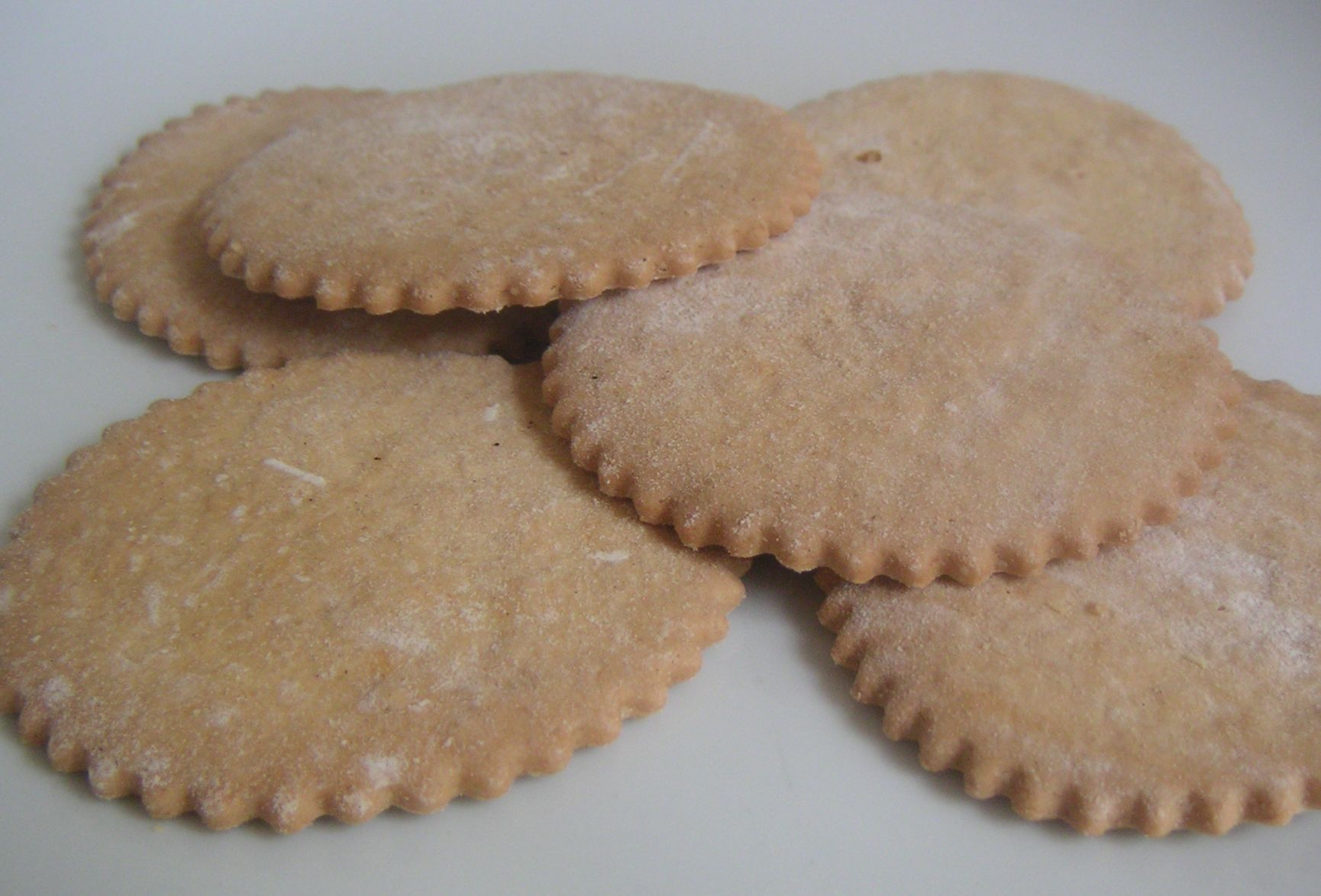 'Crespellets' are one of the wide variety of Minorquian cookies. These are fine and chunchy, made with flour, milk, eggs and pork lard. They have usually also a little bit of cinnamon and citron.